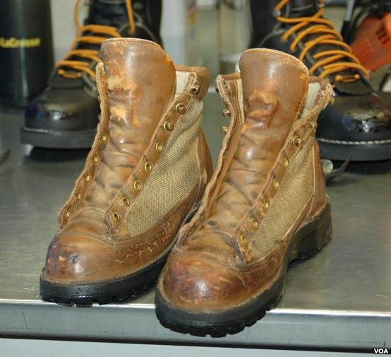 VOA correspondent Steve Herman's boots, before recrafting, after nearly a quarter century of wear.